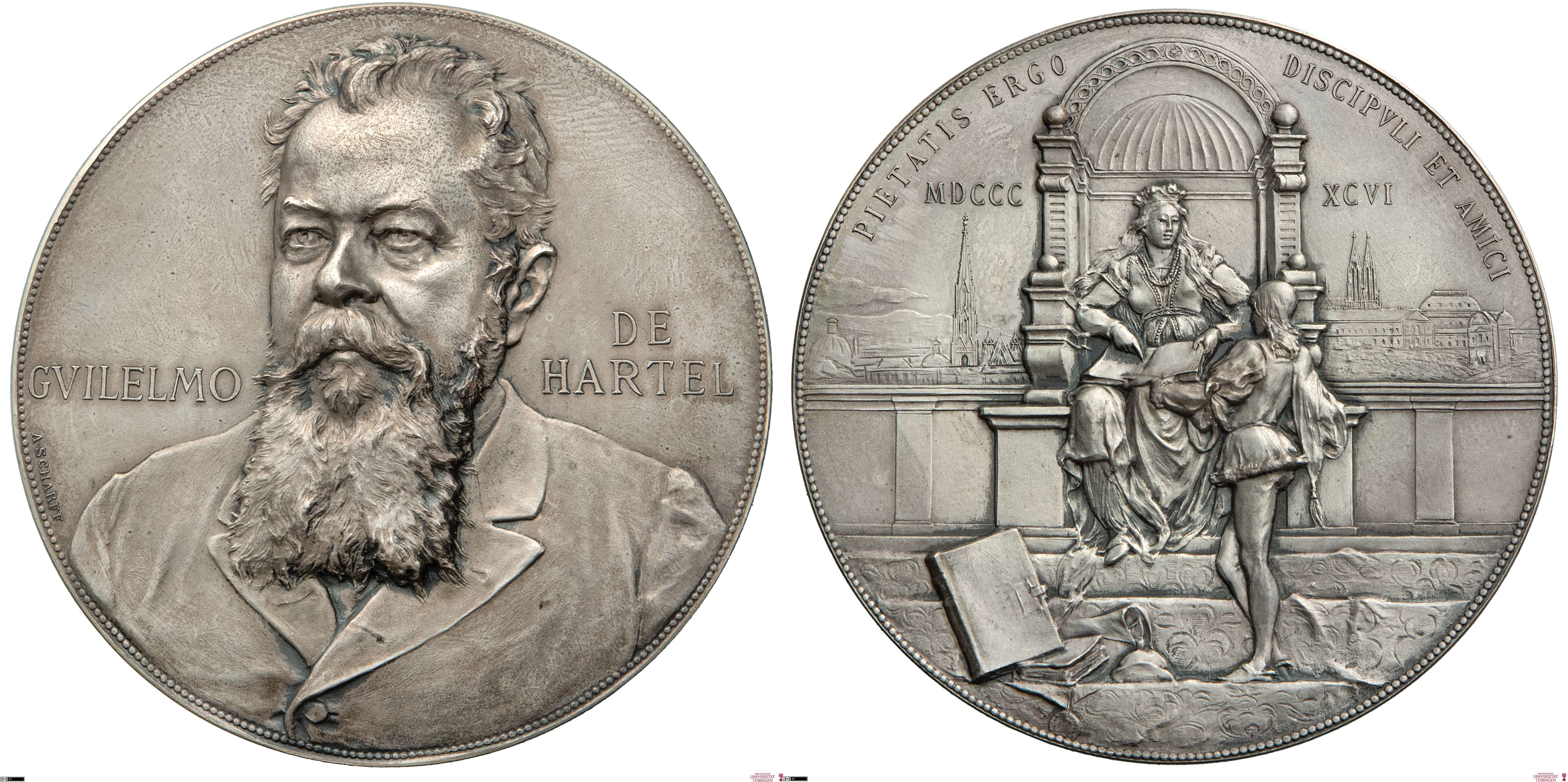 The front side shows a bust of Hartel. His name is given in Latinized form to the sides of said bust. The engraver Anton Scharff signed on the left near the rim. The main image of the back side depicts a teacher-student scene. A panorama of Austrain Vienna is pictured in the background. The dedication and year of coinage has been placed in the upper part of the medal equally in Latinized style.